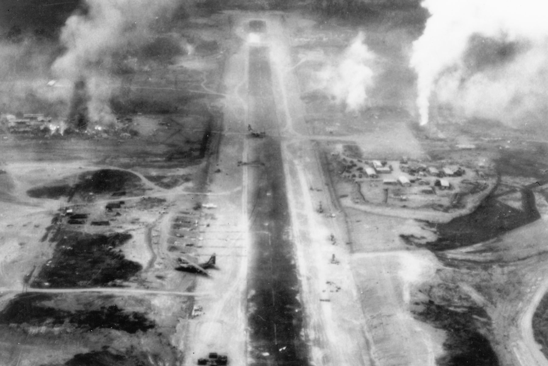 The only known picture of actions leading to a Medal of Honor for the Battle of Kham Duc